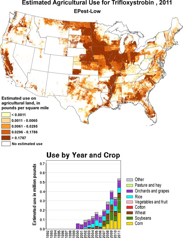 Trifloxystrobin map of use, USA, 2011 (estimated)